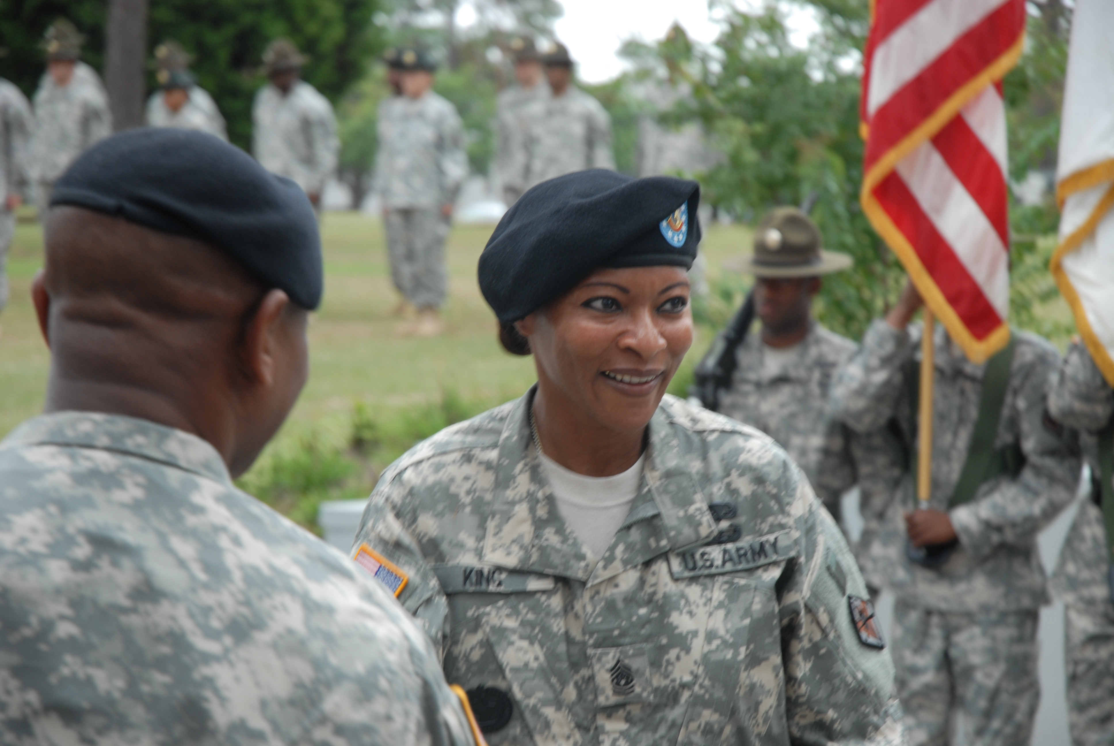 Command Sgt. Maj. Teresa King, shown here during a change of responsibility ceremony in front of Fort Jackson post headquarters, takes over as commandant of the Drill Sergeant School, making her the first woman to hold the position.